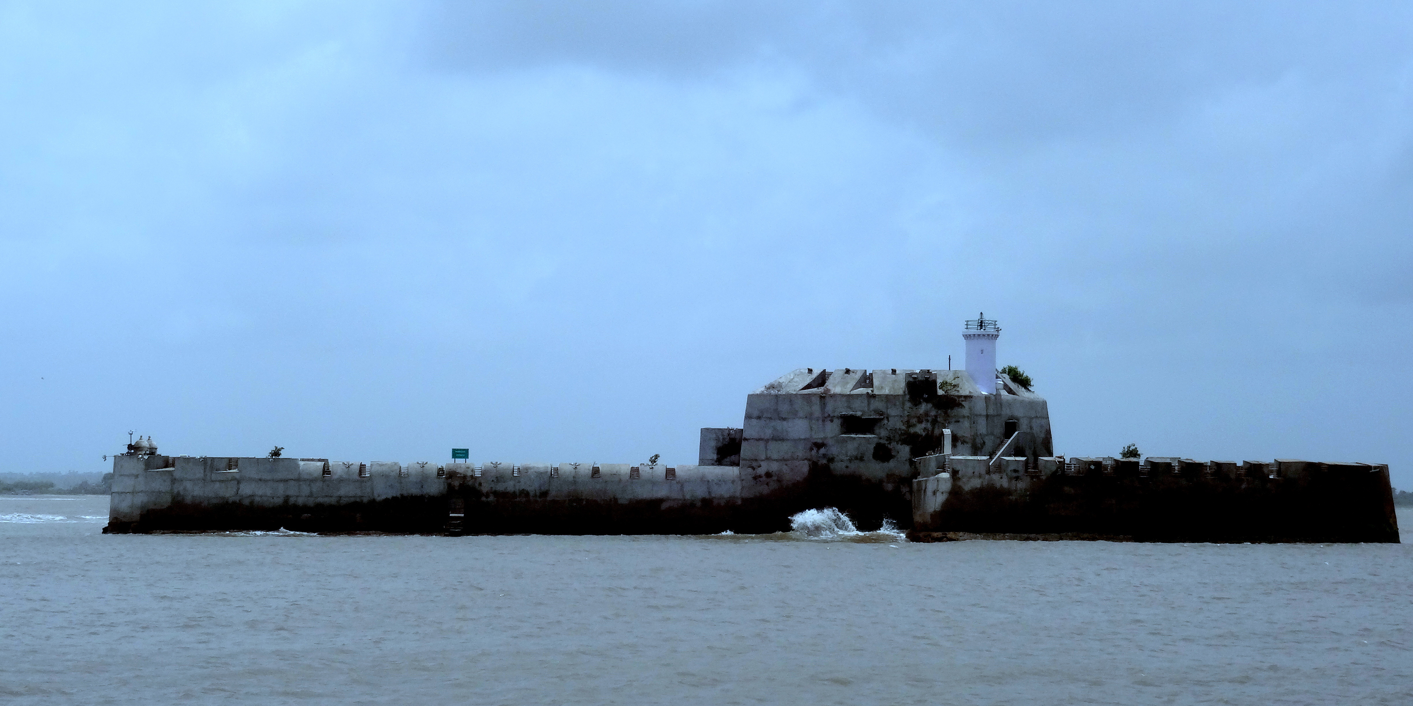 Diu Beach, India